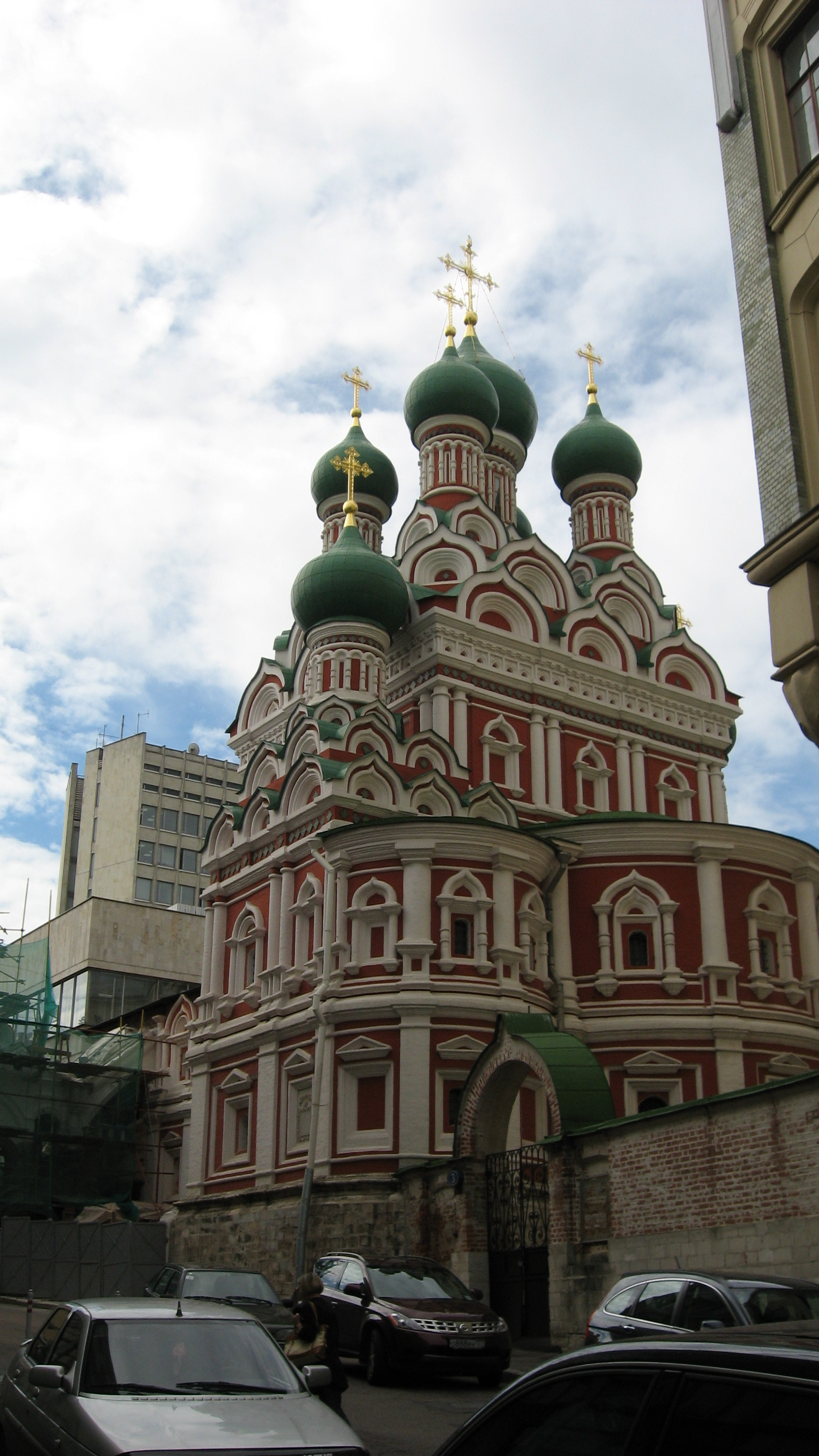 Church of the trinity in Nikitniki, Moscow